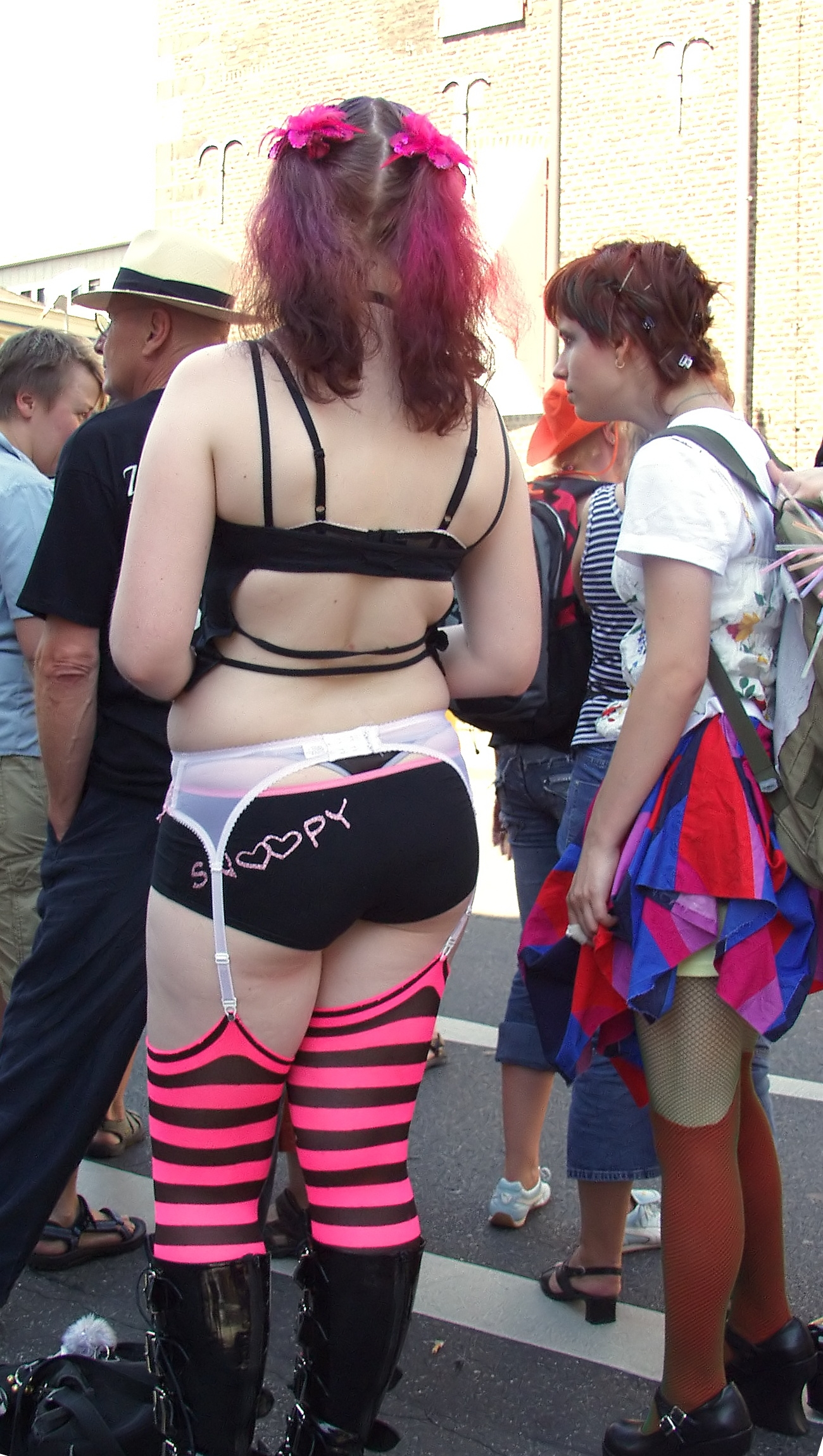 Members of the Christopher Street Day demonstration - ColognePride 2006